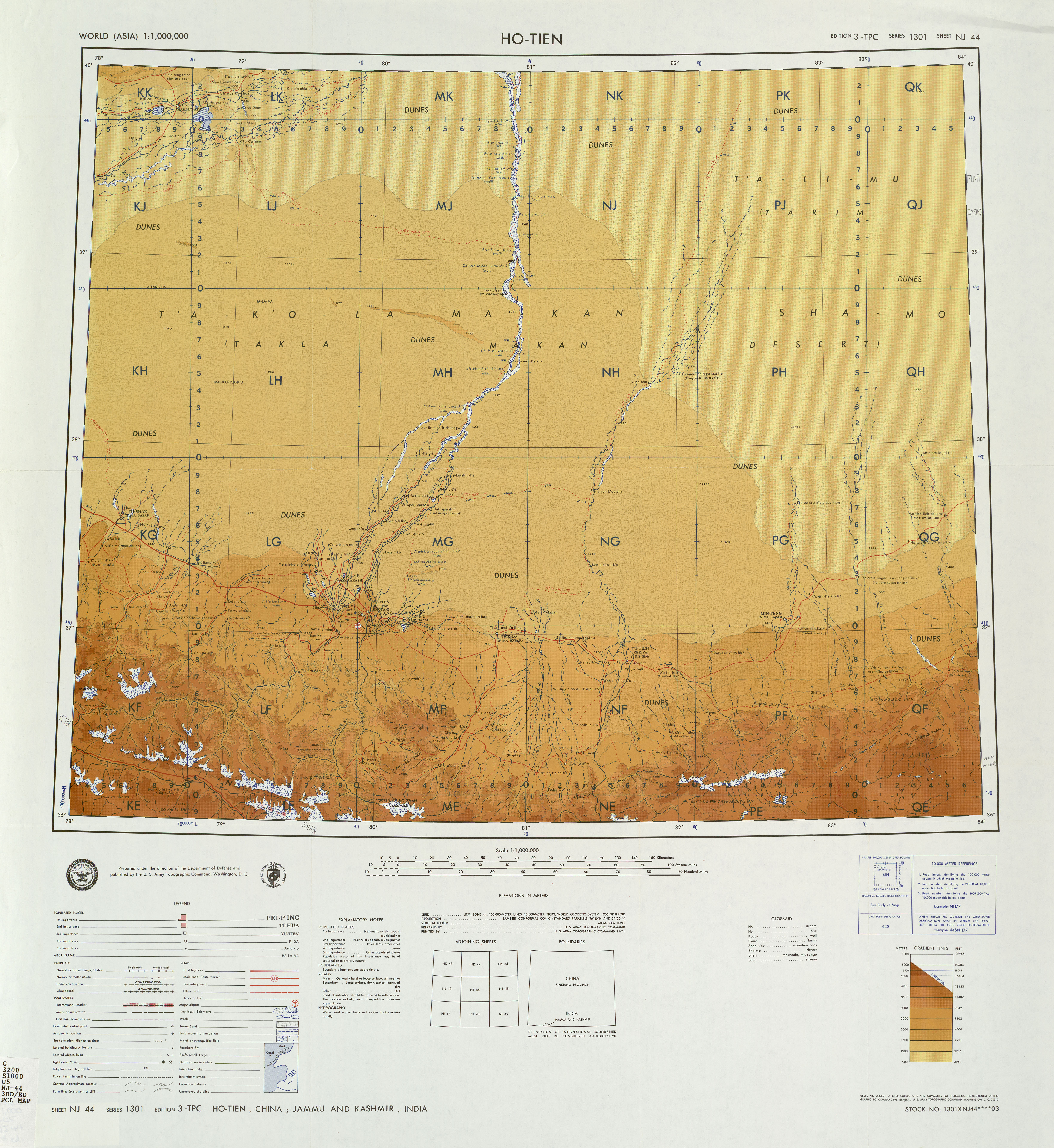 Map of Hotan Prefecture (Ho-tien, Ho-t'ien, Khotan), Xinjiang, China and surrounding region from the International Map of the World 1:1,000,000; from map: "DELINEATION OF INTERNATIONAL BOUNDARIES MUST NOT BE CONSIDERED AUTHORITATIVE"